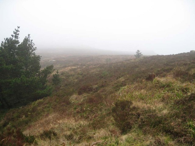 Black Rock on the Ballyhoura Mountain Range Black Rock appears on the map as Spot Height 516. It is a very scenic spot on the Ballyhoura Mountain range in the centre of Counties Limerick and Tipperary. When the cloud is high you can see the townlands of Tipperary very well from this spot. Ballyhoura Mountain range highest peak is Seefin Mountain at 528m. Walking in this mountain range is very pleasant and great for beginners, beware though - a lot of forestation can throw you off route if you're not careful!